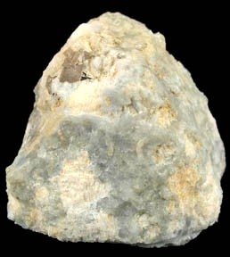 Béhierite Locality: Antsongombato gem mine, FKT Antsentsindrano, Andrembesoa Commune, Betafo District, Vakinankaratra Region, Antananarivo Province, Madagascar (Locality at ) This rare earth Borate is the Tantalum analogue of Schiavinatoite. This is a remarkable example of this incredibly rare species. It features a few small, sharp, well formed, brownish colored pseudo-octahedra of Behierite on pegmatite matrix. There are very few rare earth Borates in the mineral world. 3.8 x 3.3 x 2.6cm